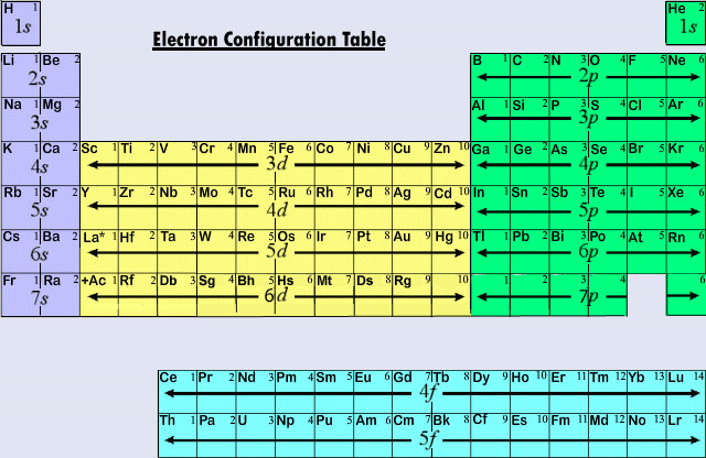 Electron Configuration Table